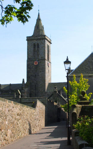 St Salvator's chapel.